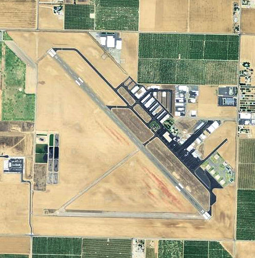 USGS digital orthophoto of Porterville Municipal Airport in California